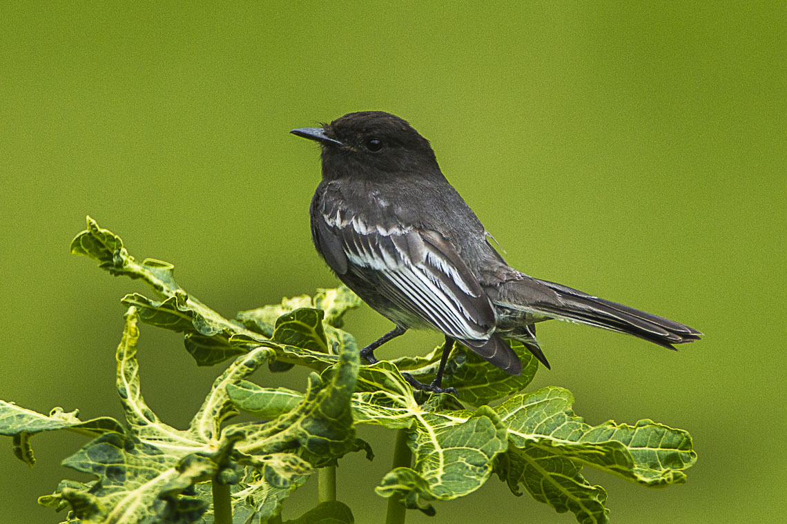 Black Phoebe - Colombia_S4E4664